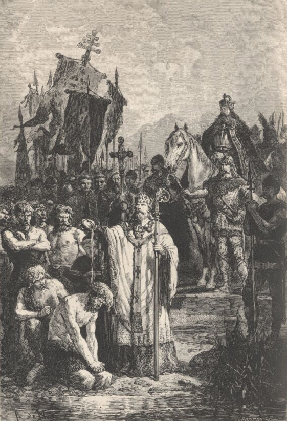 Conversion of the Saxons. Original caption: “Charlemagne inflicting baptism upon the Saxons”